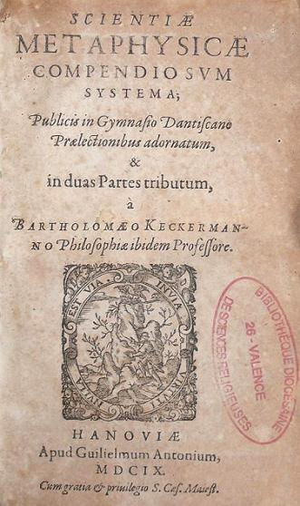 Title page of Bartholomäus Keckermann (1609). Scientiae Metaphysicae compendiosum systema. Hanau: Wilhelm Antonius